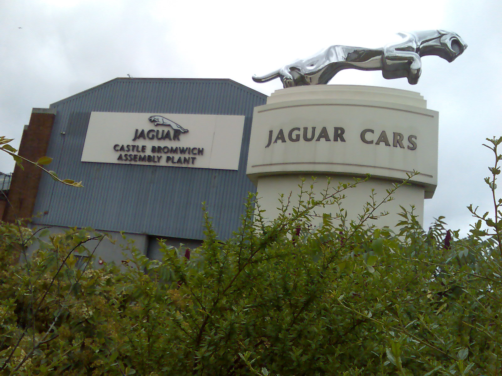 Jaguar Cars' Castle Bromwich Assembly plant in Birmingham. Source - [1]